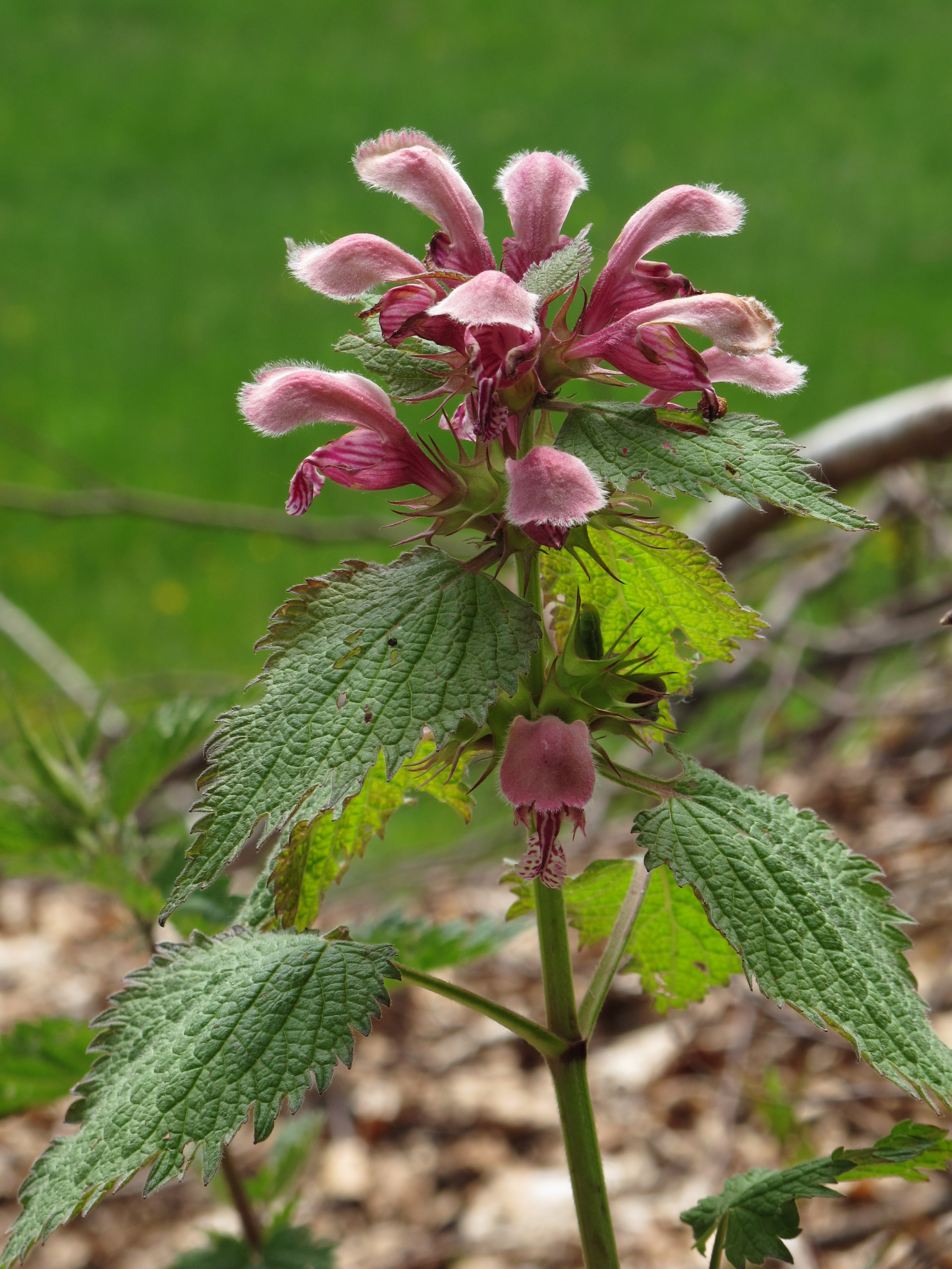 Balm-leaved archangel (Lamium orvala), at the path from San Giacomo to Prati di Pasna, Trentino, Italy